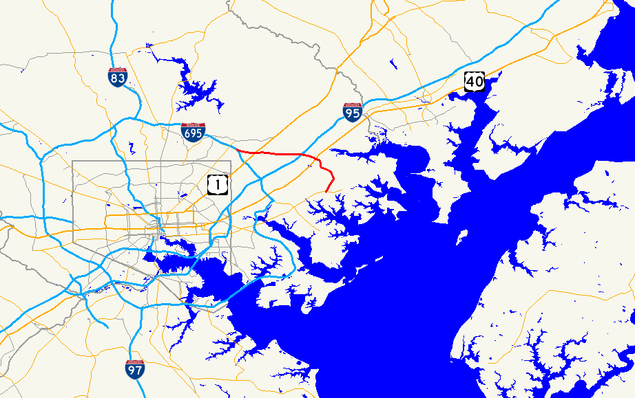 Map of Maryland Route 43